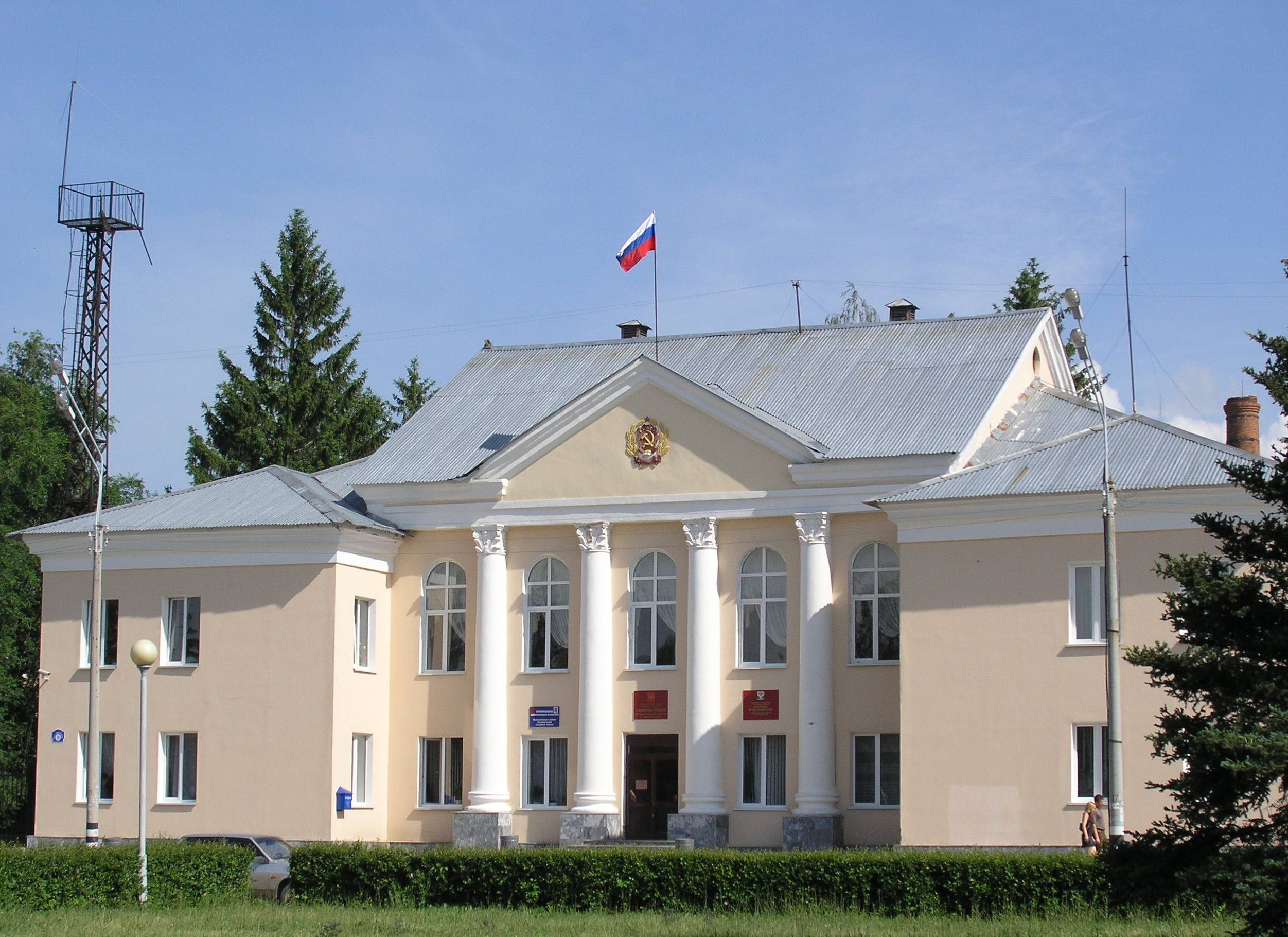 Administration of Stavropolsky rajon, Togliatti, Russia